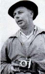 Paul Trent Farmer and ufologist.